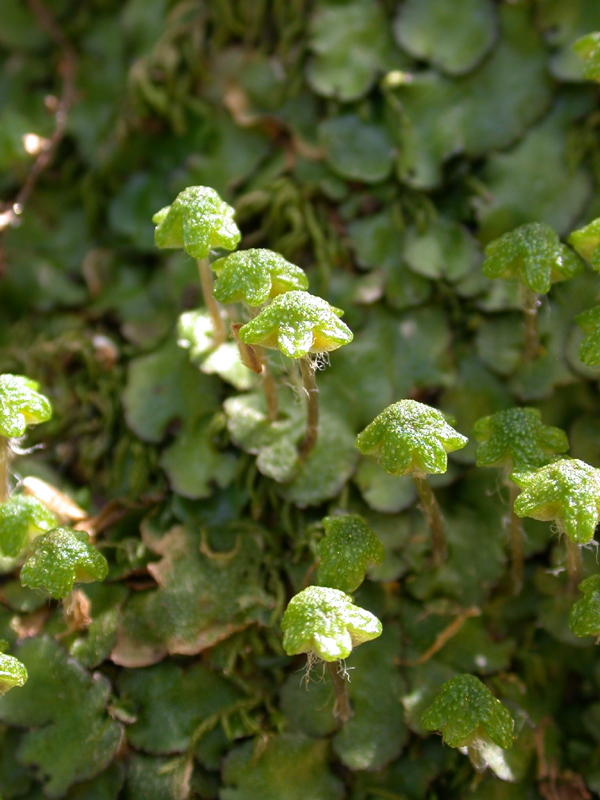 Reboulia hemisphaerica (L.) Raddi, Wadi Yagur, Mount Carmel, Israel, March 21, 2008